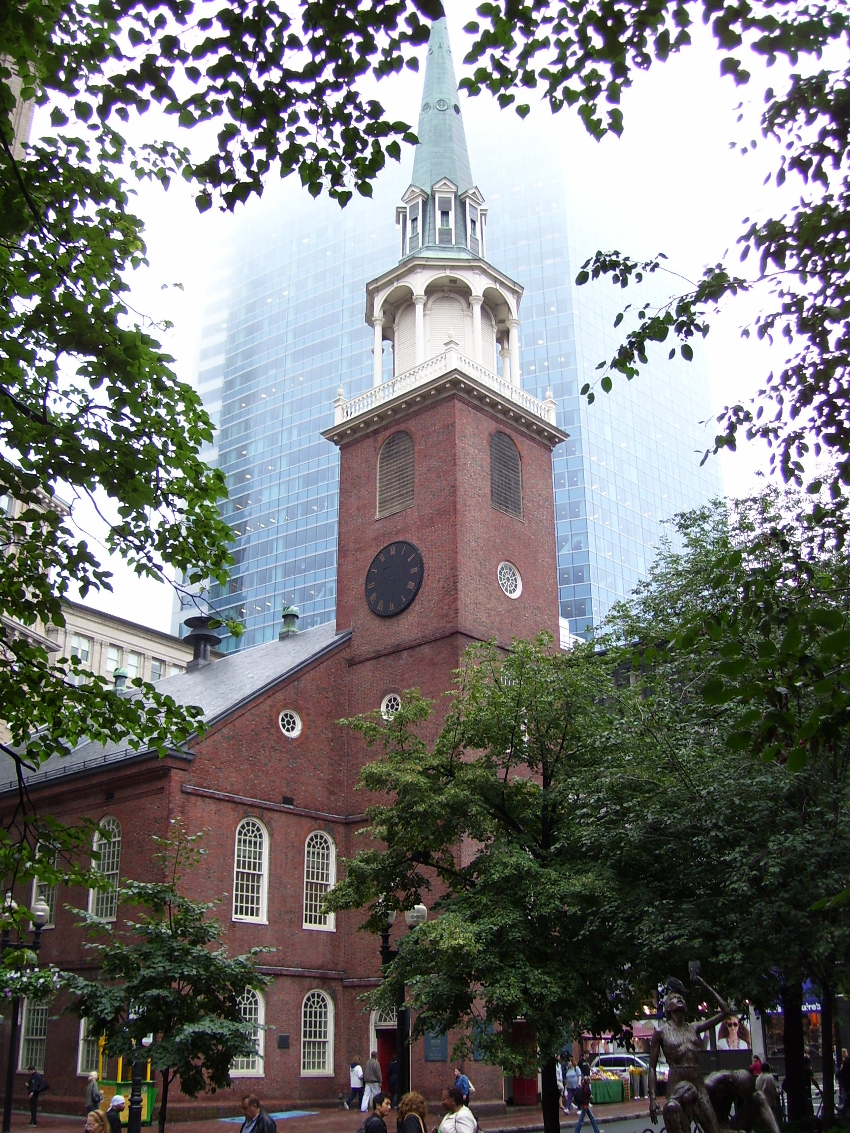 My 2009 photo of Old South Meeting House in Boston, Massachusetts.